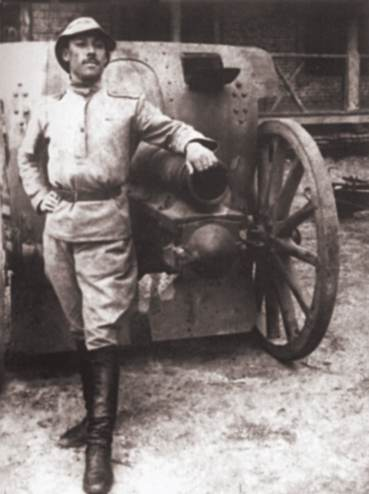 Artllery of Azerbaijan Democratic Republic